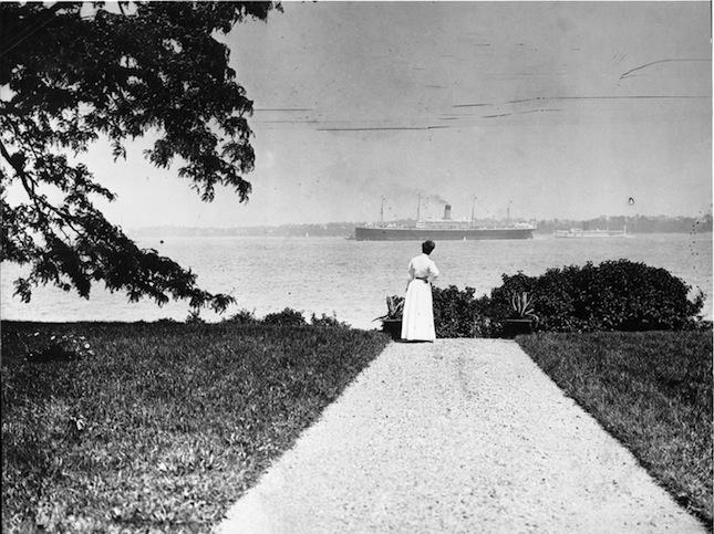 silver gelatin print